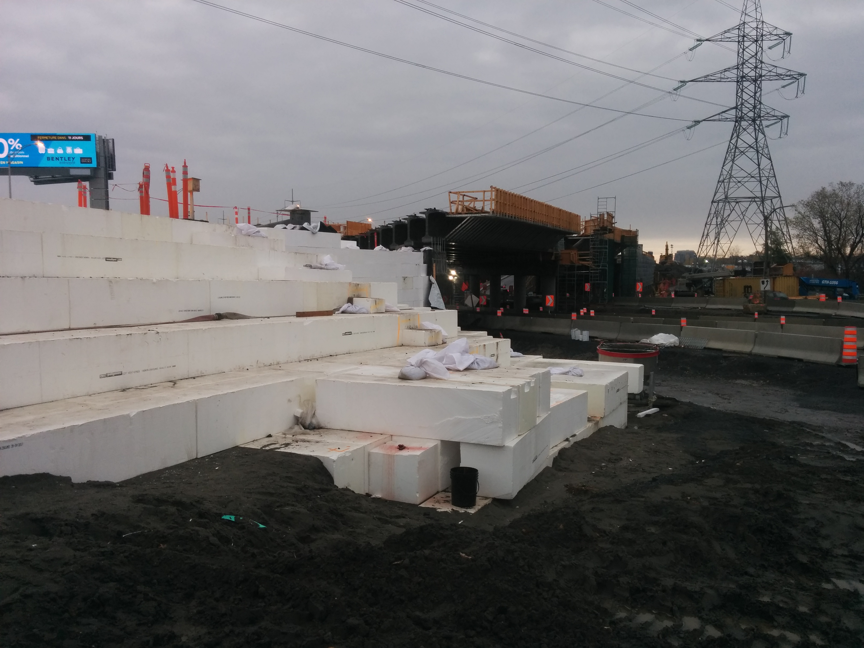 Geofoam bridge overpass near Montreal Québec